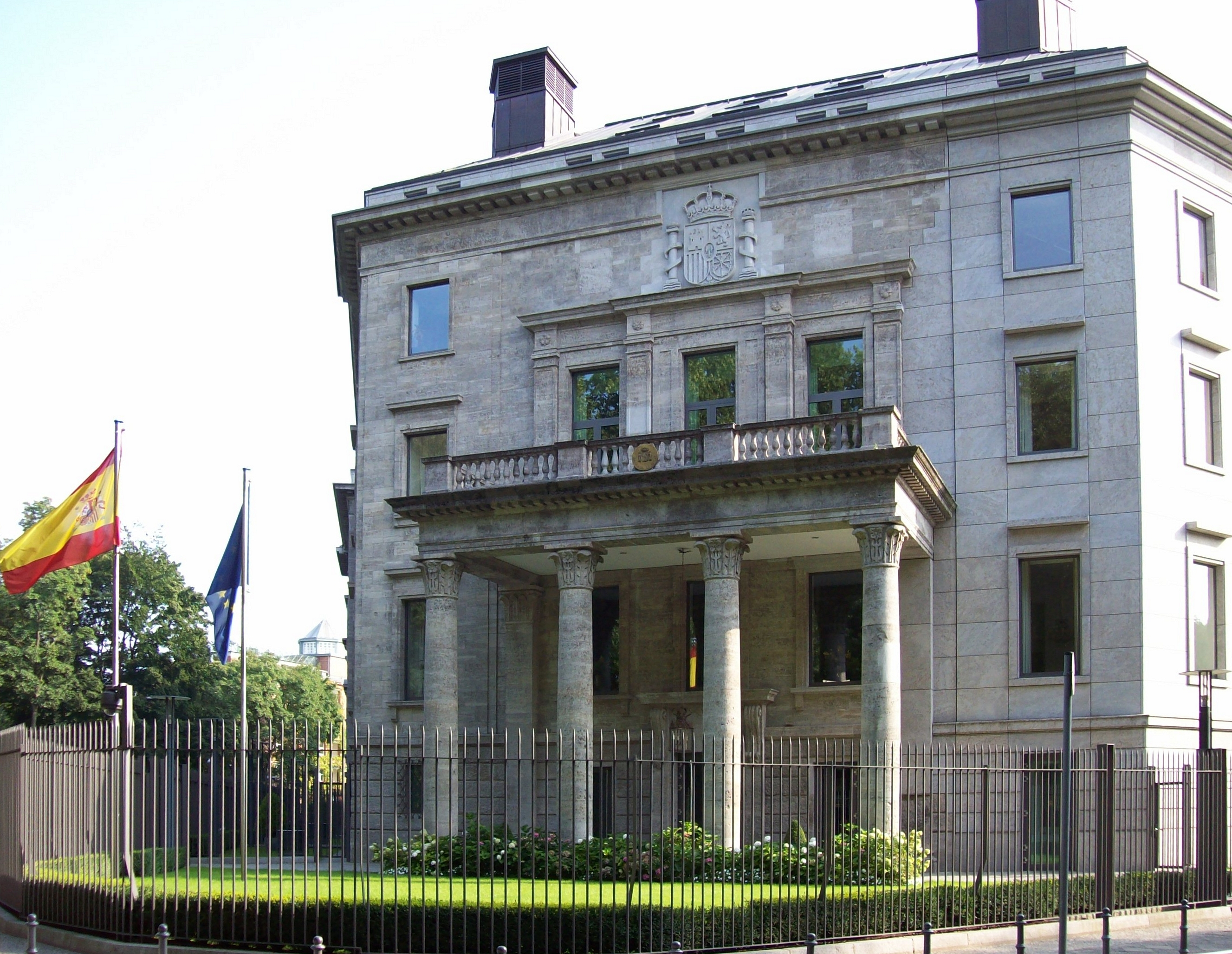 Spanish Embassy Berlin